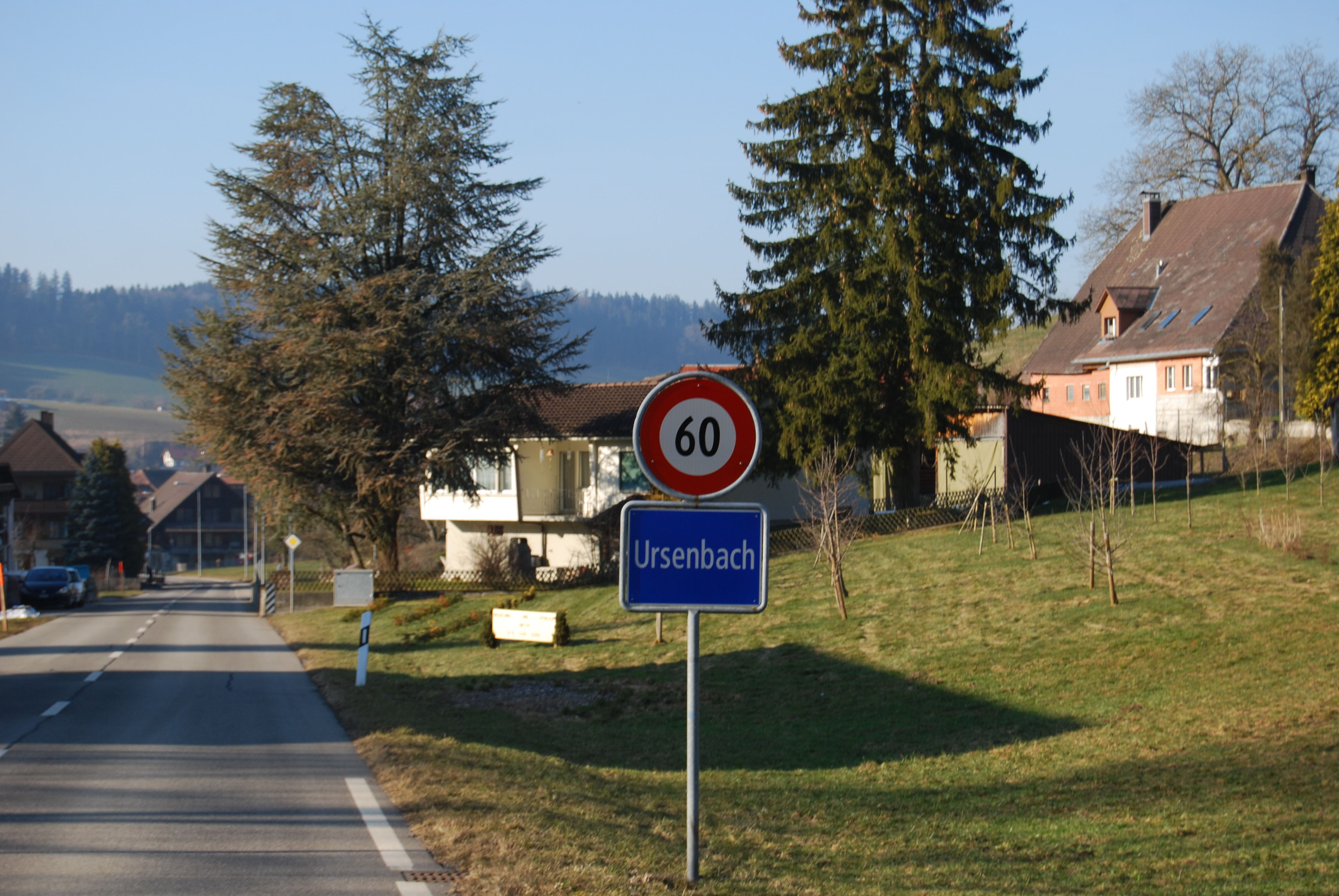 Ursenbach, canton of Bern, SwitzerlandEsperanto: Ursenbach, Kantono Berno, Svislando